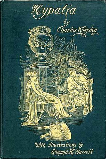 Cover of the novel Hypatia by Charles Kingsley. 1897 edition published in New York by Thomas Y. Crowell. Illustration is by Edmund H. Garrett (1853–1929).